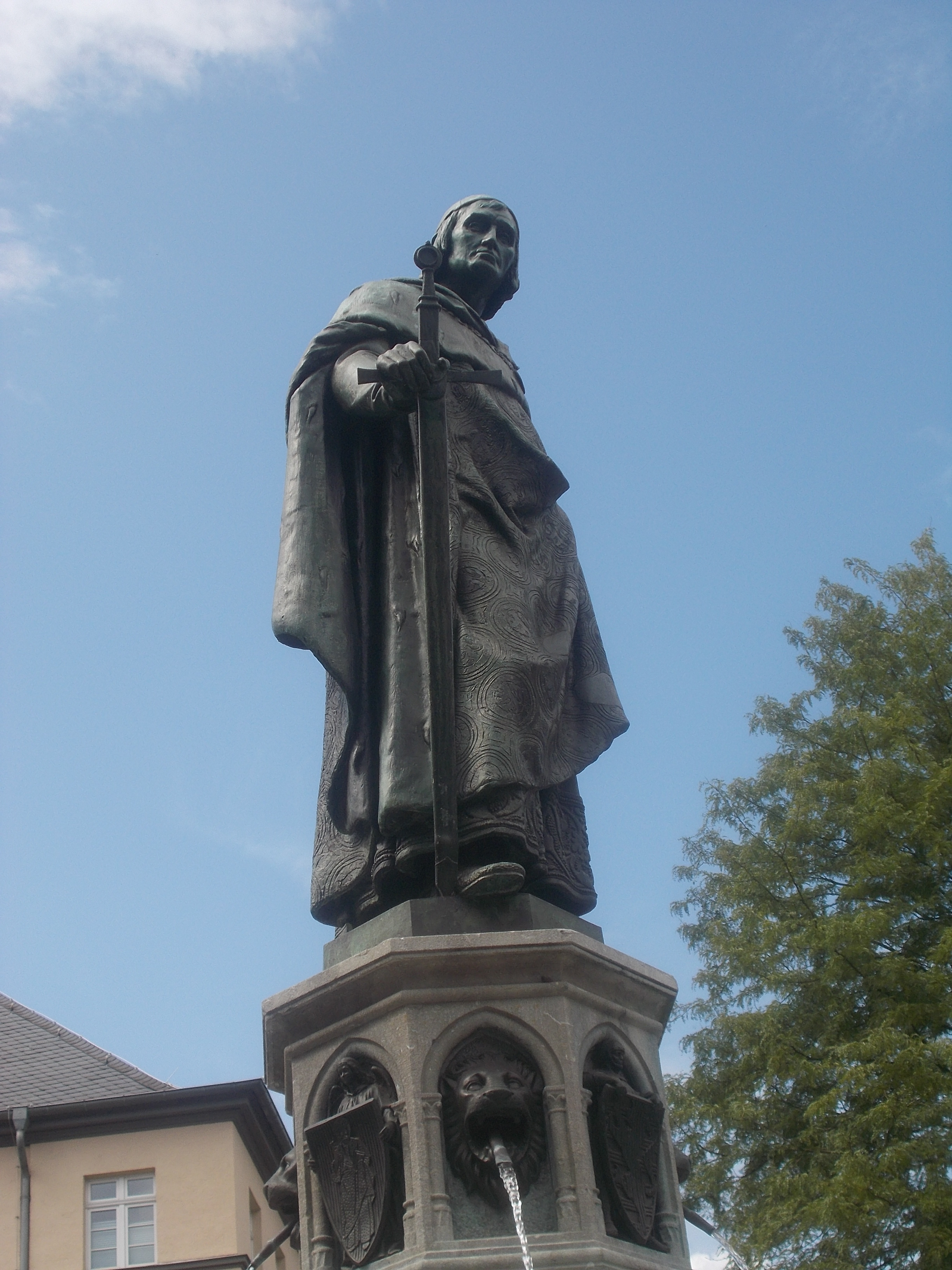 Statue of Balduin at Balduin Fontaine in Balduin Street at Trier/Treves